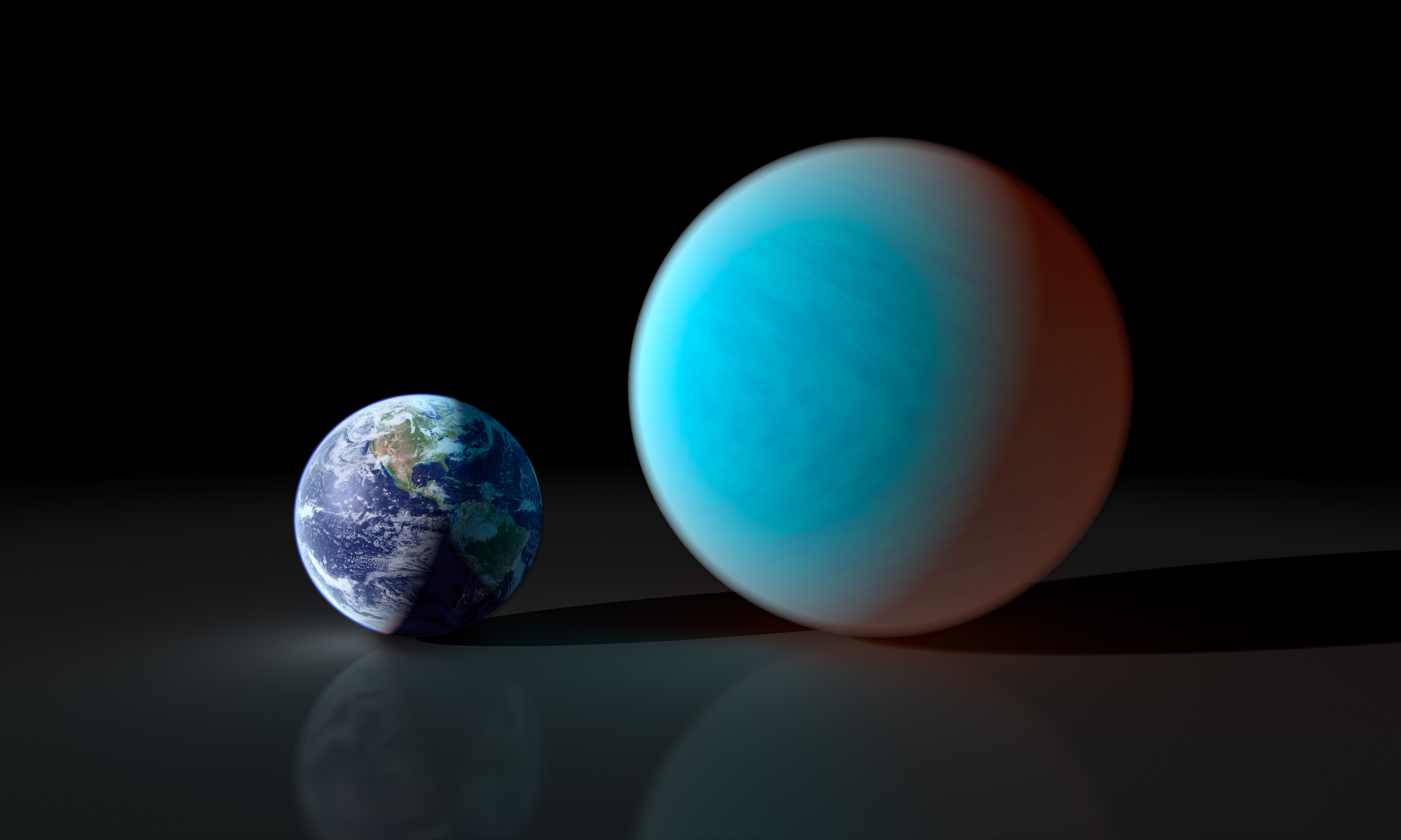 This artists concept contrasts our familiar Earth with the exceptionally strange planet known as 55 Cancri e. While it is only about twice the size of the Earth, NASA's Spitzer Space Telescope has gathered surprising new details about this supersized and superheated world. Astronomers first discovered 55 Cancri e in 2004, and continued investigation of the exoplanet has shown it to be a truly bizarre place. The world revolves around its sun-like star in the shortest time period of all known exoplanets just 17 hours and 40 minutes. (In other words, a year on 55 Cancri e lasts less than 18 hours.) The exoplanet orbits about 26 times closer to its star than Mercury, the most Sun-kissed planet in our solar system. Such proximity means that 55 Cancri e's surface roasts at a minimum of 3,200 degrees Fahrenheit (1,760 degrees Celsius). The new observations with Spitzer reveal 55 Cancri e to have a mass 7.8 times and a radius just over twice that of Earth. Those properties place 55 Cancri e in the "super-Earth" class of exoplanets, a few dozen of which have been found. However, what makes this world so remarkable is the resulting low density derived from these measurements. The Spitzer results suggest that about a fifth of the planet's mass must be made of light elements and compounds, including water. In the intense heat of 55 Cancri e's terribly close sun, those light materials would exist in a "supercritical" state, between that of a liquid and a gas, and might sizzle out of the planet's surface. Only a handful of known super-Earths, however, cross the face of their stars as viewed from our vantage point in the cosmos. At just 40 light years away, 55 Cancri e stands as the smallest transiting super-Earth in our stellar neighborhood. In fact, 55 Cancri is so bright and close that it can be seen with the naked eye on a clear, dark night.